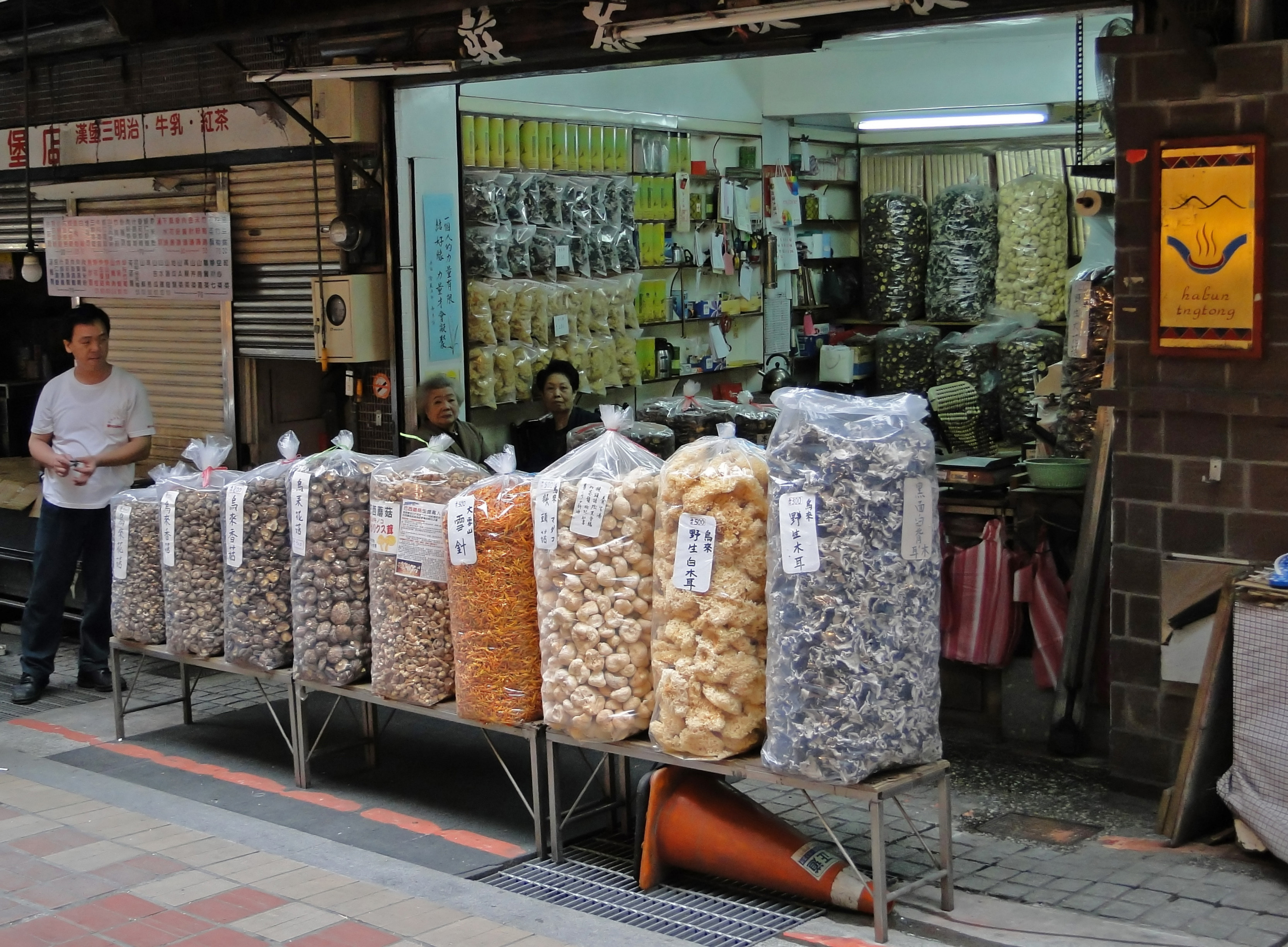 Mushroom market in Wulai, Taiwan